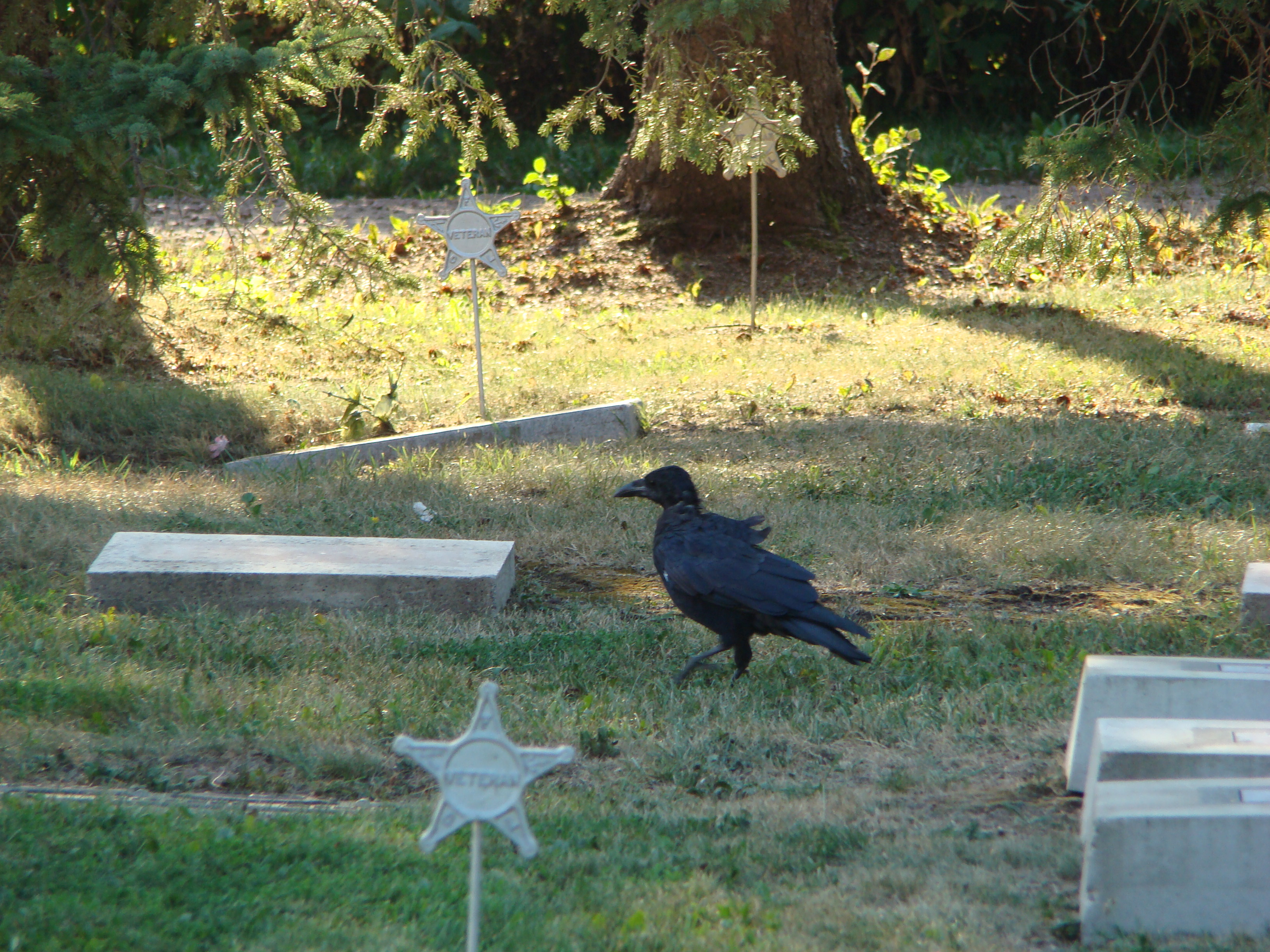 An American Crow Corvus brachyrhynchos in Saint Joseph Cemetery, La Pointe Wisconsin, USA.